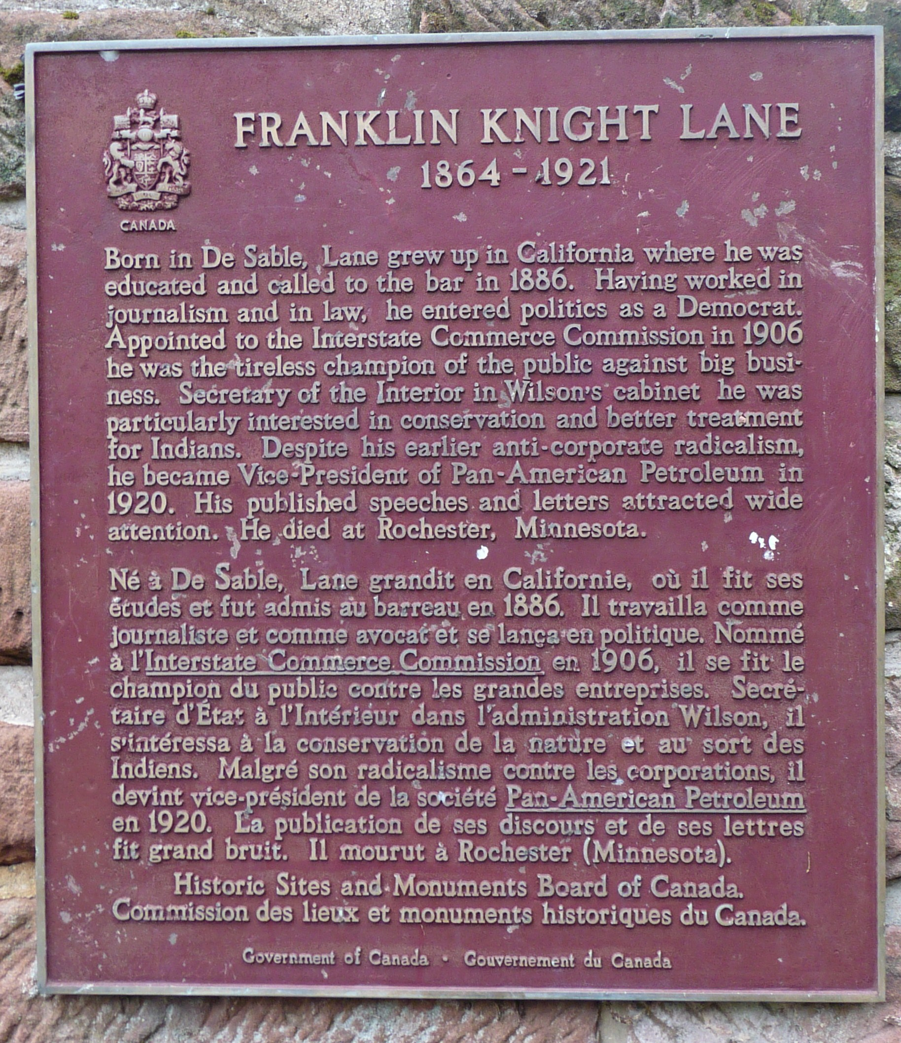 Historical plaque dedicated to Franklin Knight Lane, DuSable, PE. Plaque erected in 1954. See here. Copyright expired in 2004.